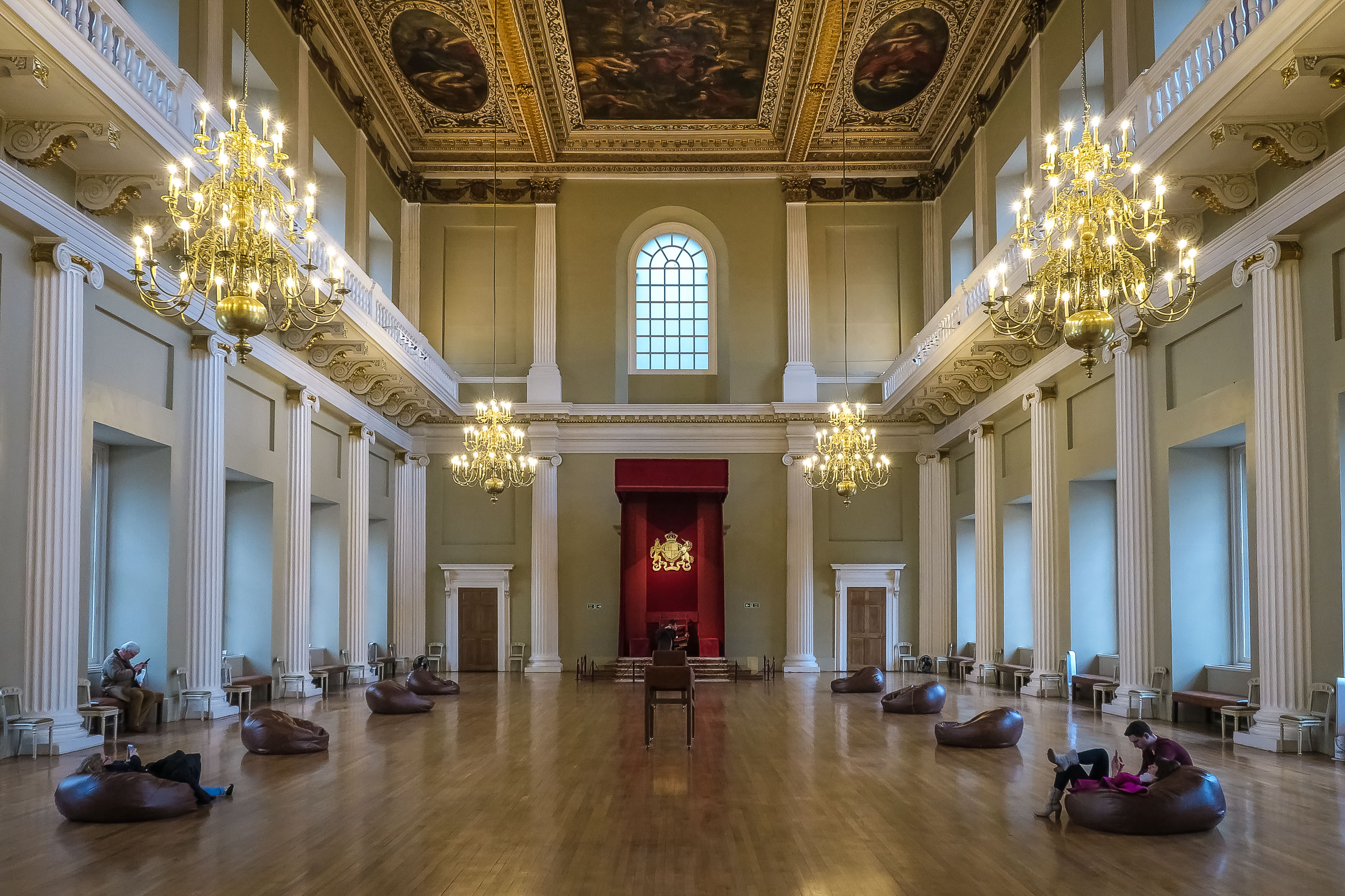 Banqueting House Interior, London, England, Whitehall, 2017